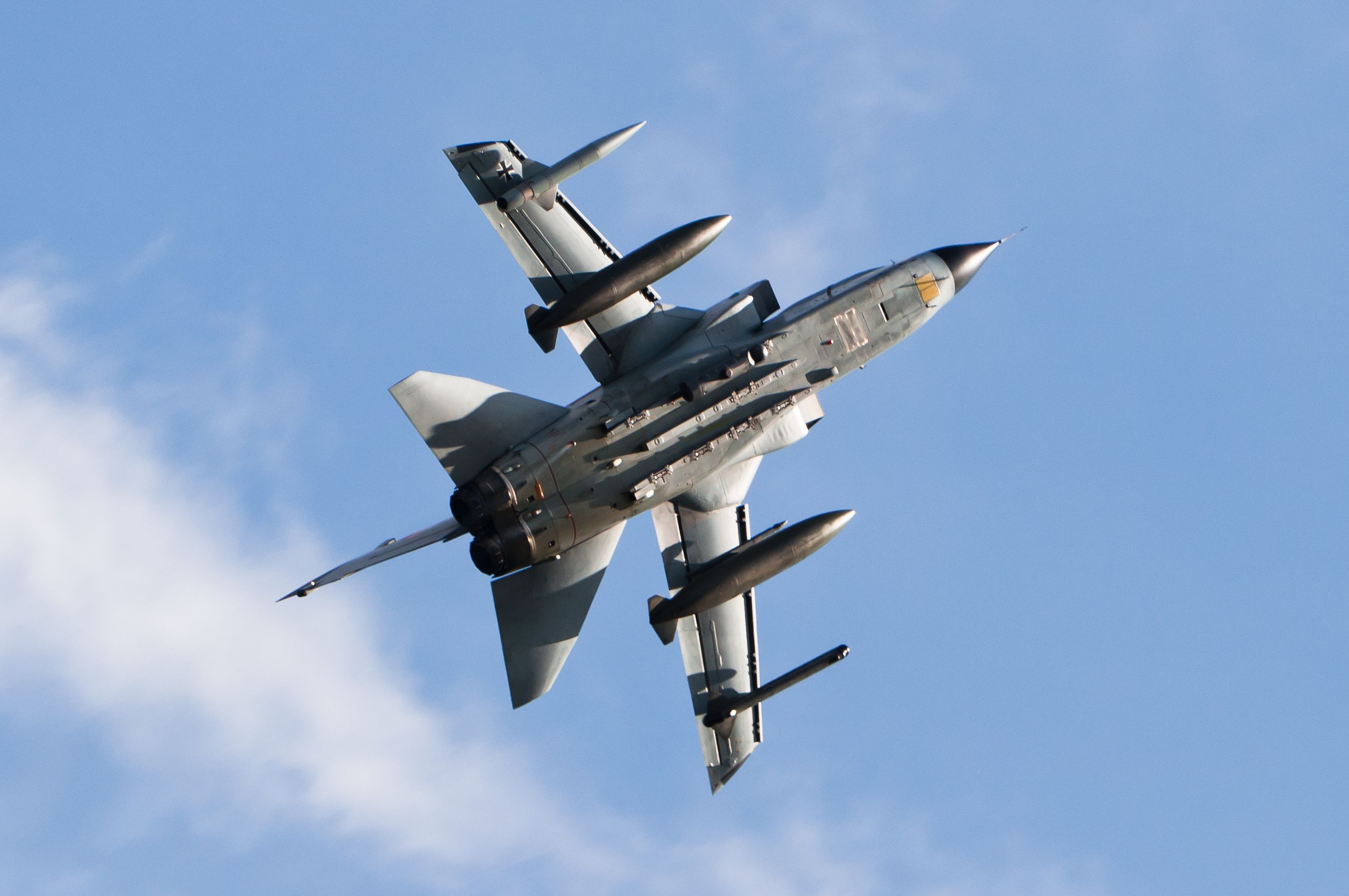 Panavia Tornado IDS (reg. 46+22) of the German Air Force at ILA Berlin Air Show 2012.